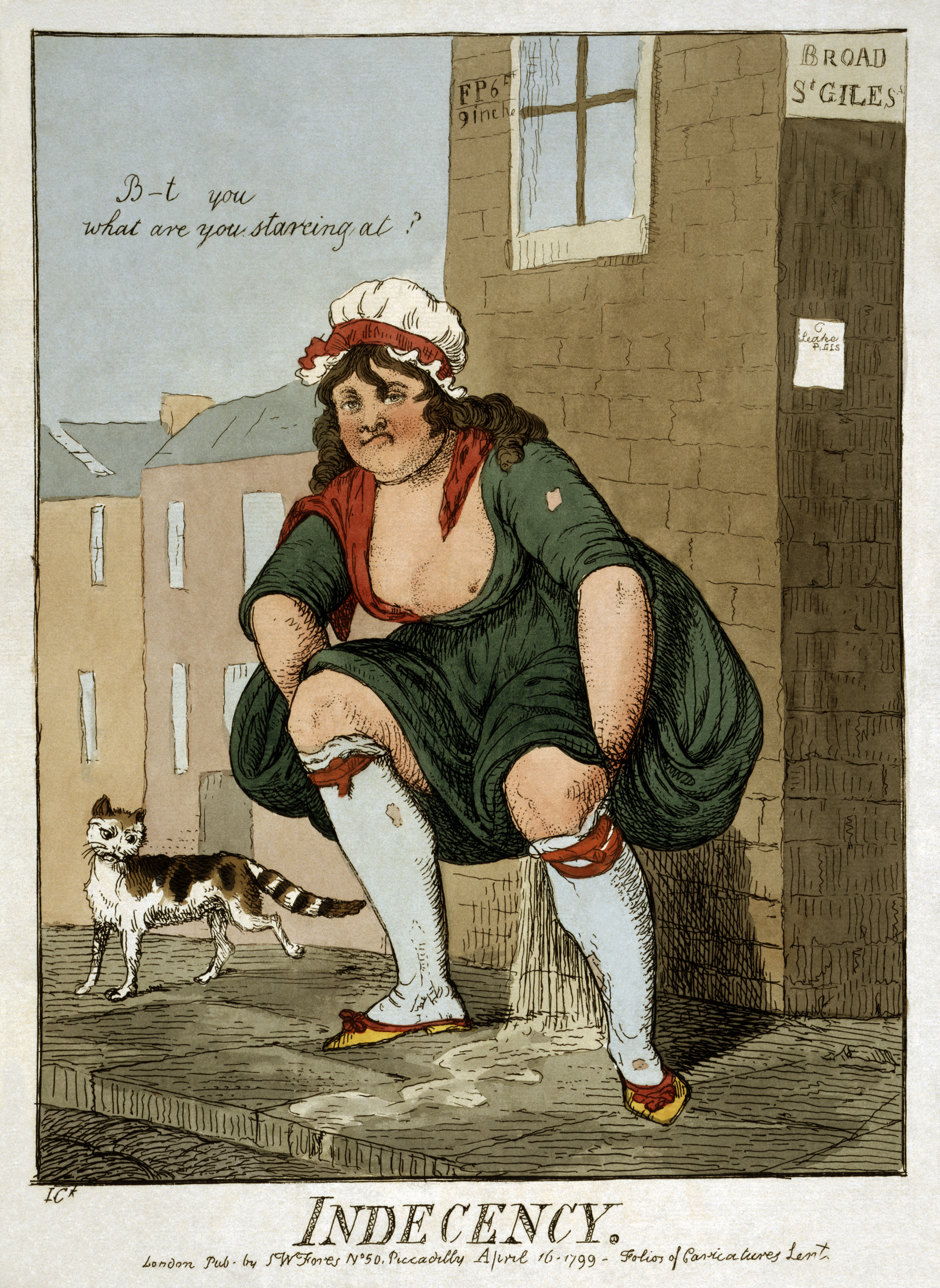 "Indecency" Cartoon print showing a woman urinating in the street, and saying, "Blast you, what are you stareing [sic] at?" Print: engraving, color.